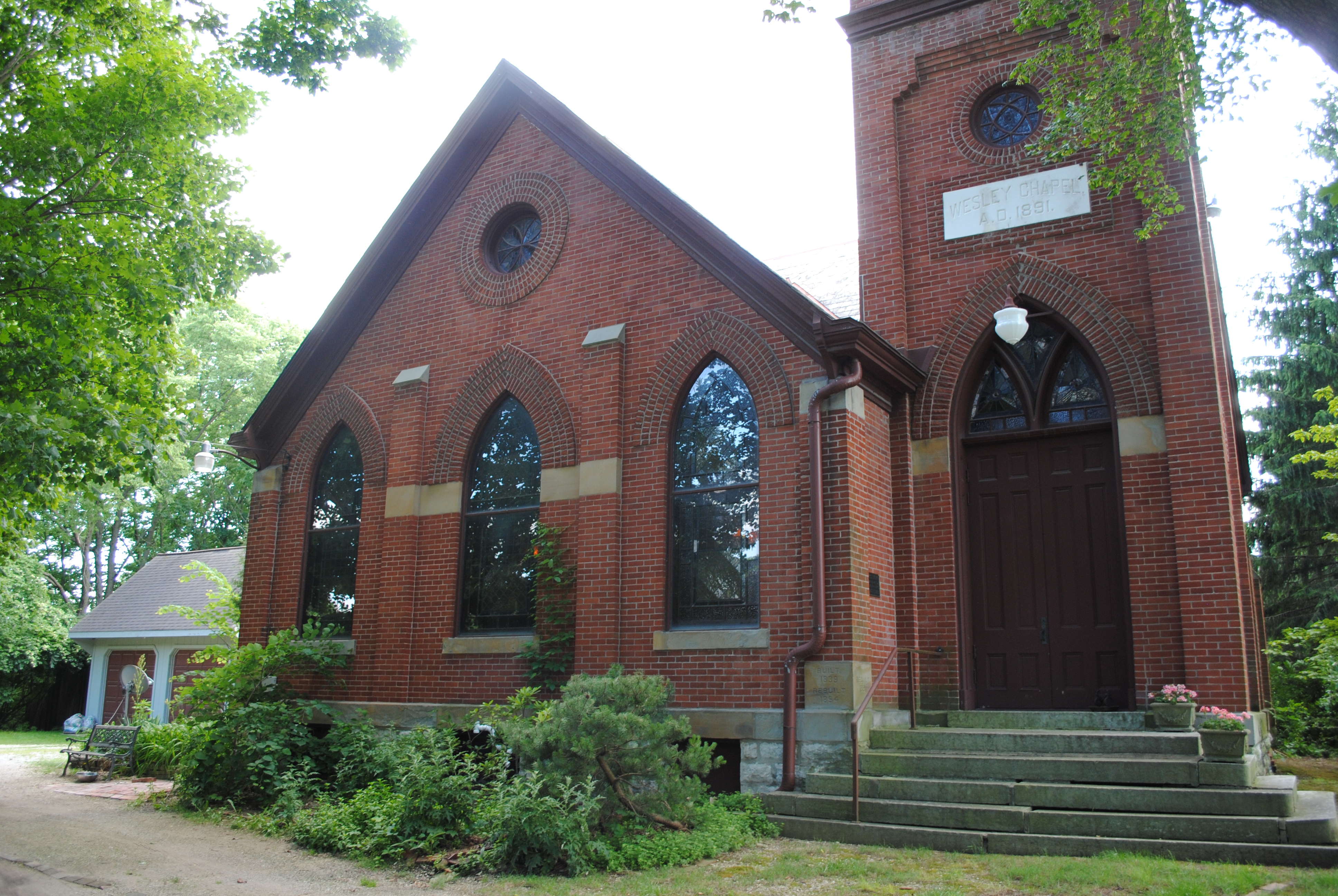 The Wesley Chapel in Hillad Ohio